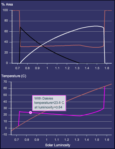 Plots from a basic DaisyWorld run with white and black daisies. Top plot shows %area covered with daisies, or barren. Bottom plot shows the planetary temperature achieved by daisy feedback (pink) vs. what the temperature would have been if the planet were barren. X-axis is solar luminosity. Please to run the simulator.